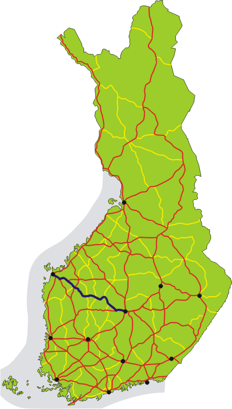 Map of the main road (highway) 18 in Finland, shown in dark blue. The other 1st class main roads (numbers 1–29) are red, 2nd class main roads (numbers 40–98) yellow. Black dots show the 12 biggest urban areas.